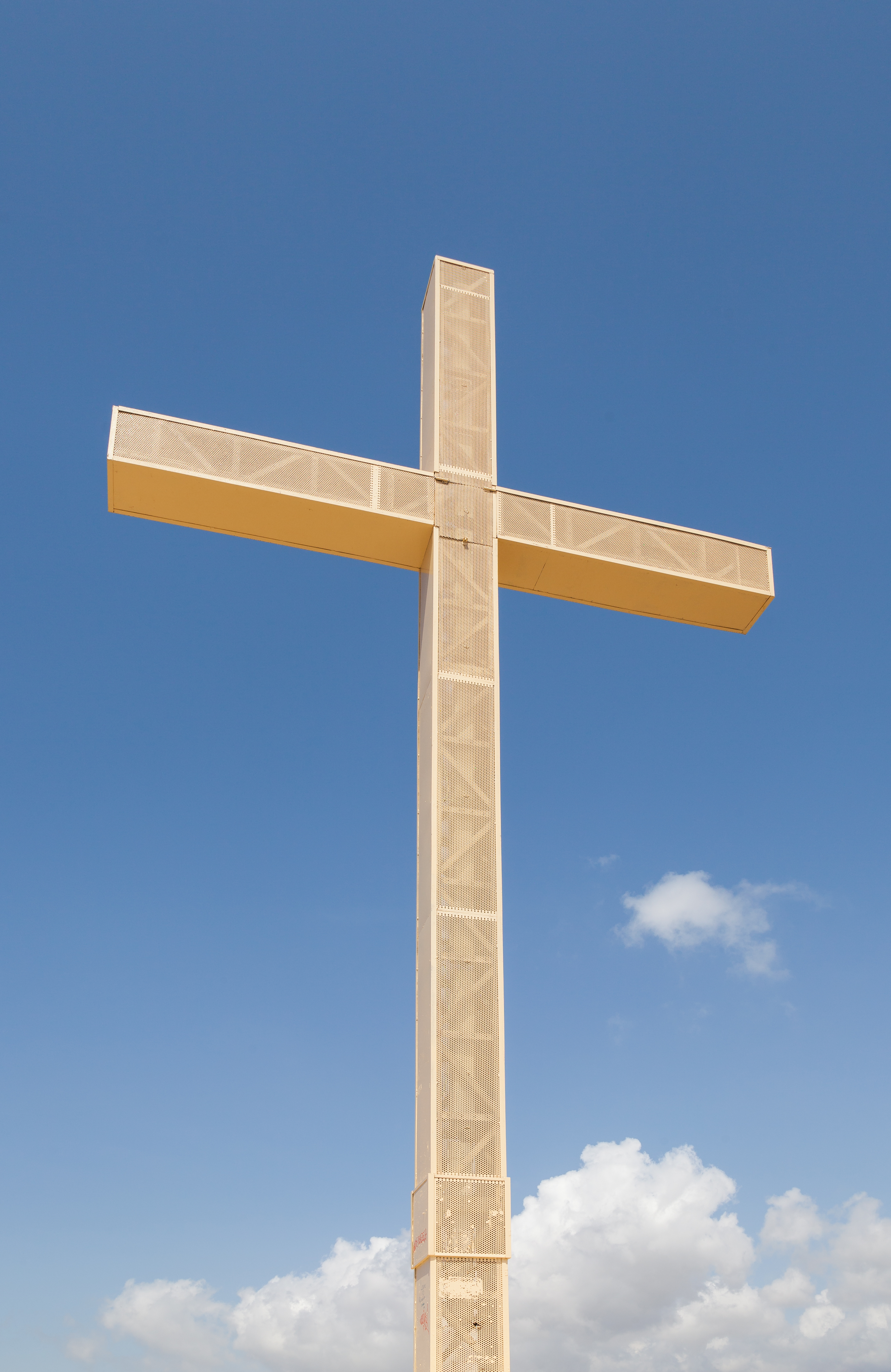 Cross of Benidorm, Spain